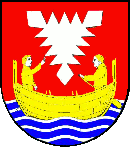 Coat of arms of the Stadt (town) Neustadt in Holstein in Schleswig-Holstein, Germany. Blazon: Gules, two men regardant Or, statant in a boat Or floating on waves Azure and Argent, dexter, man raising the othhand with two fingers stretched, sinister, man holding the rudder, in chief a nettle leaf of Holstein Argent.